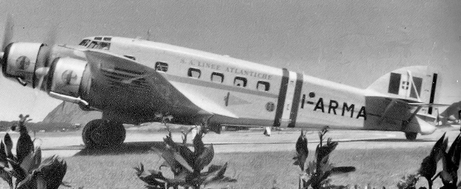 Italian Savoia-Marchetti SM.81 tri-motor airliner in USAAF service - Howard Field, Panama, 1942. This aircraft was acquired by the USAAF from the Italian Latin American Airline LATI which was seized in Chile by local government officials and provided to the squadron due to the severe shortage of USAAF transports in Central America. Although flown to Howard Field, the aircraft was not used for any operational missions.